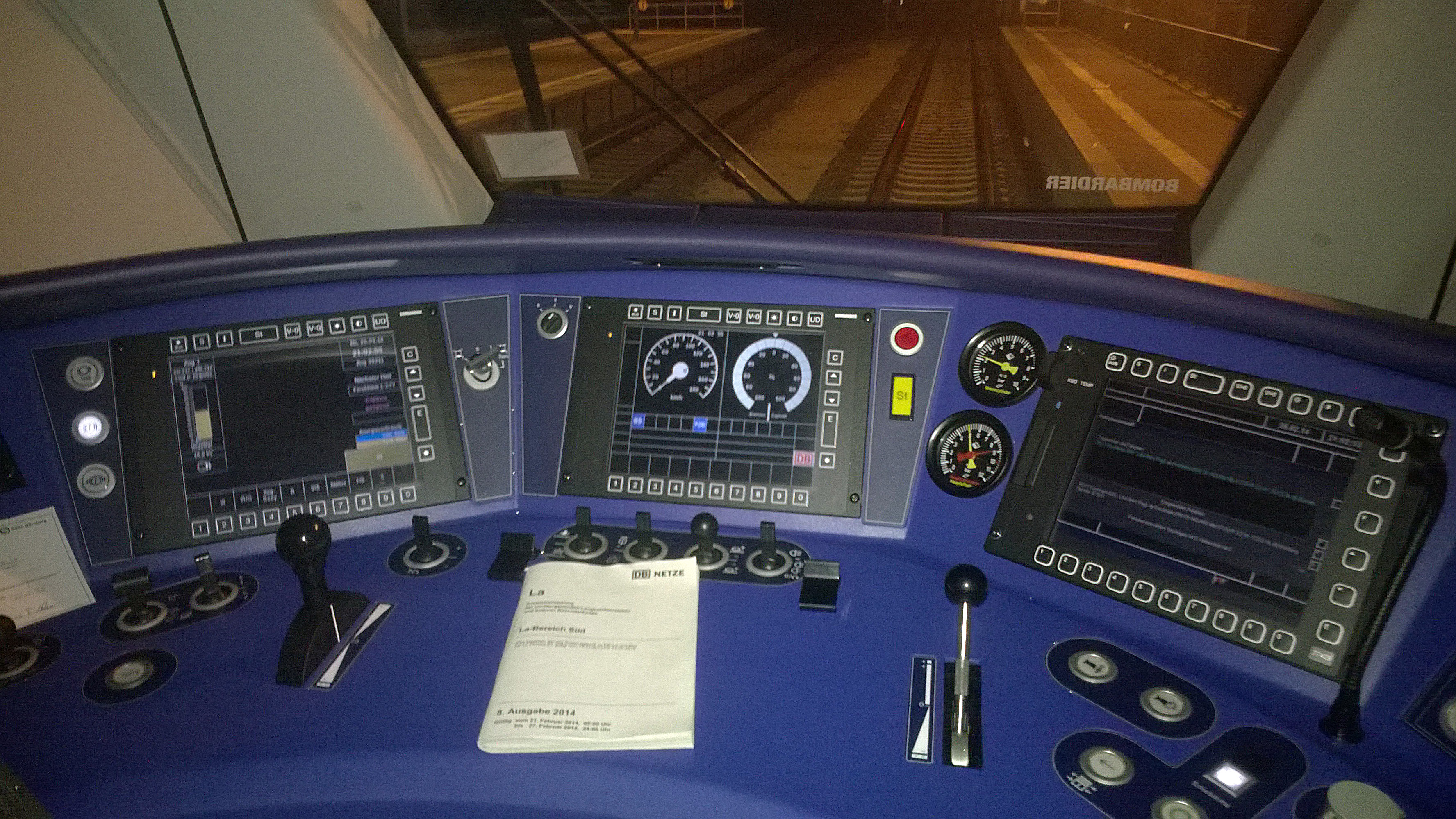 Talent 2 cab with master controller, brake controller and three LCD screens (TDD, CCD and ETD)